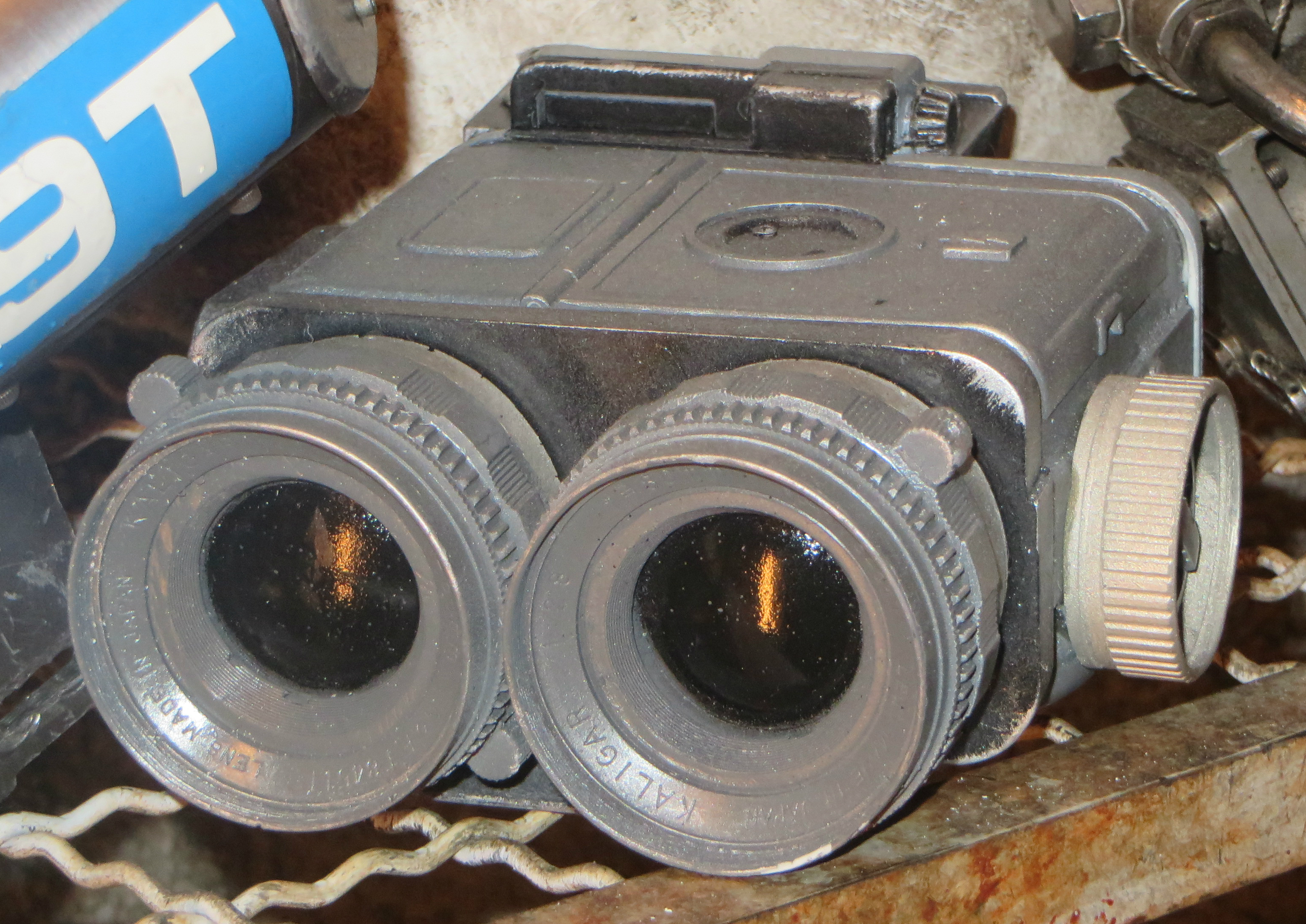 Lydree MB450 macrobinoculars on display at Star Wars Launch Bay at Disney's Hollywood Studios.